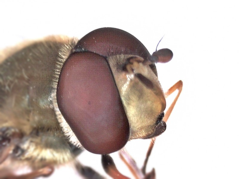 Syrphus ribesii (Syrphidae) - (male imago), De Park, Elst (Gld)